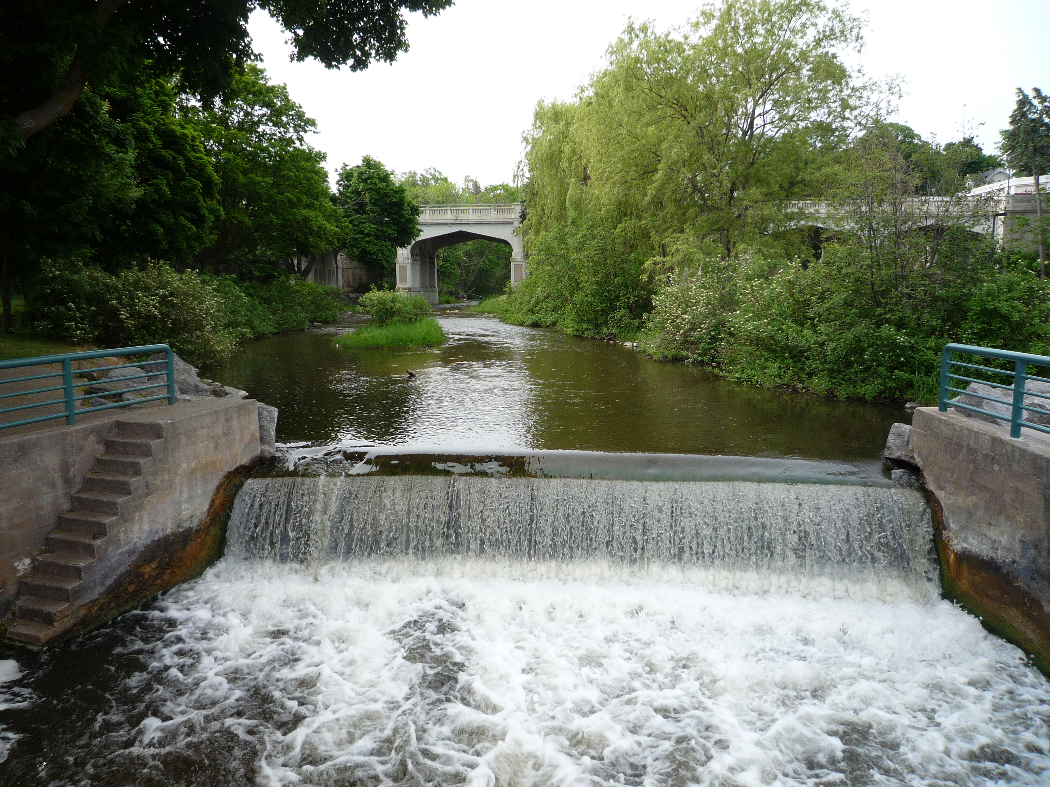 The Bear River flows through Petoskey, Michigan, USA. The Mitchell Street Bridge is in the background.